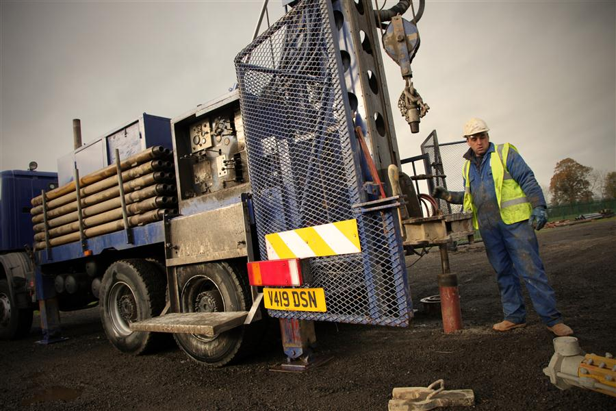 A borehole rotary drilling rig in operation at a drilling site in North Yorkshire. Features a shorter wheel base than many rigs allowing it to be used in scenarios where space is at a premium.